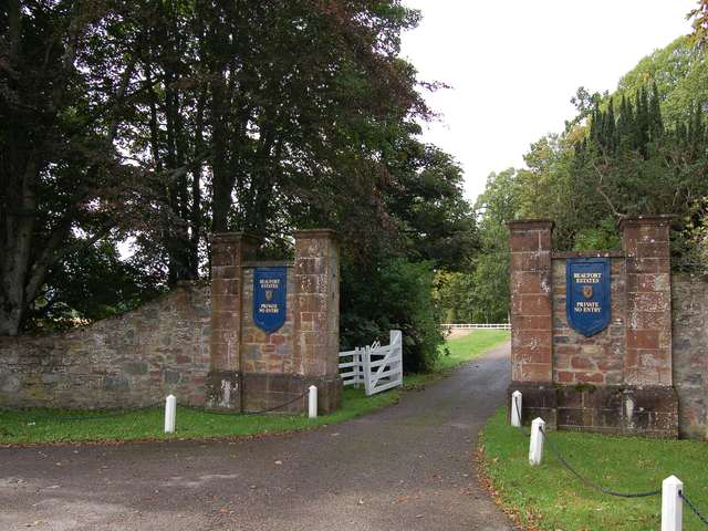 Entrance to Beaufort Castle. Built in 1882, the 24-bedroomed castle is now owned by Stagecoach bus tycoon Anne Gloag.